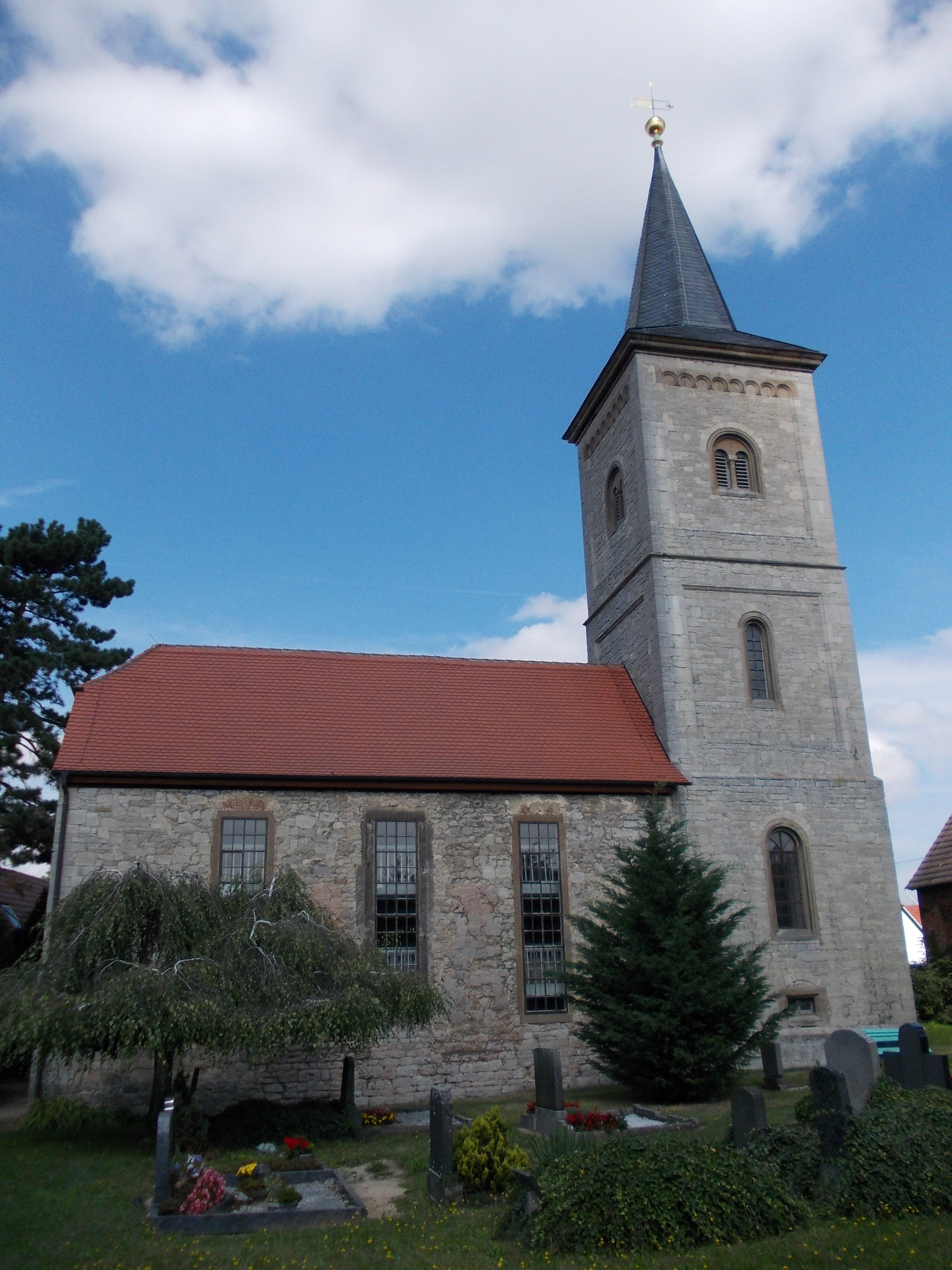 Sieglitz church (Molauer Land, district of Burgenlandkreis, Saxony-Anhalt)